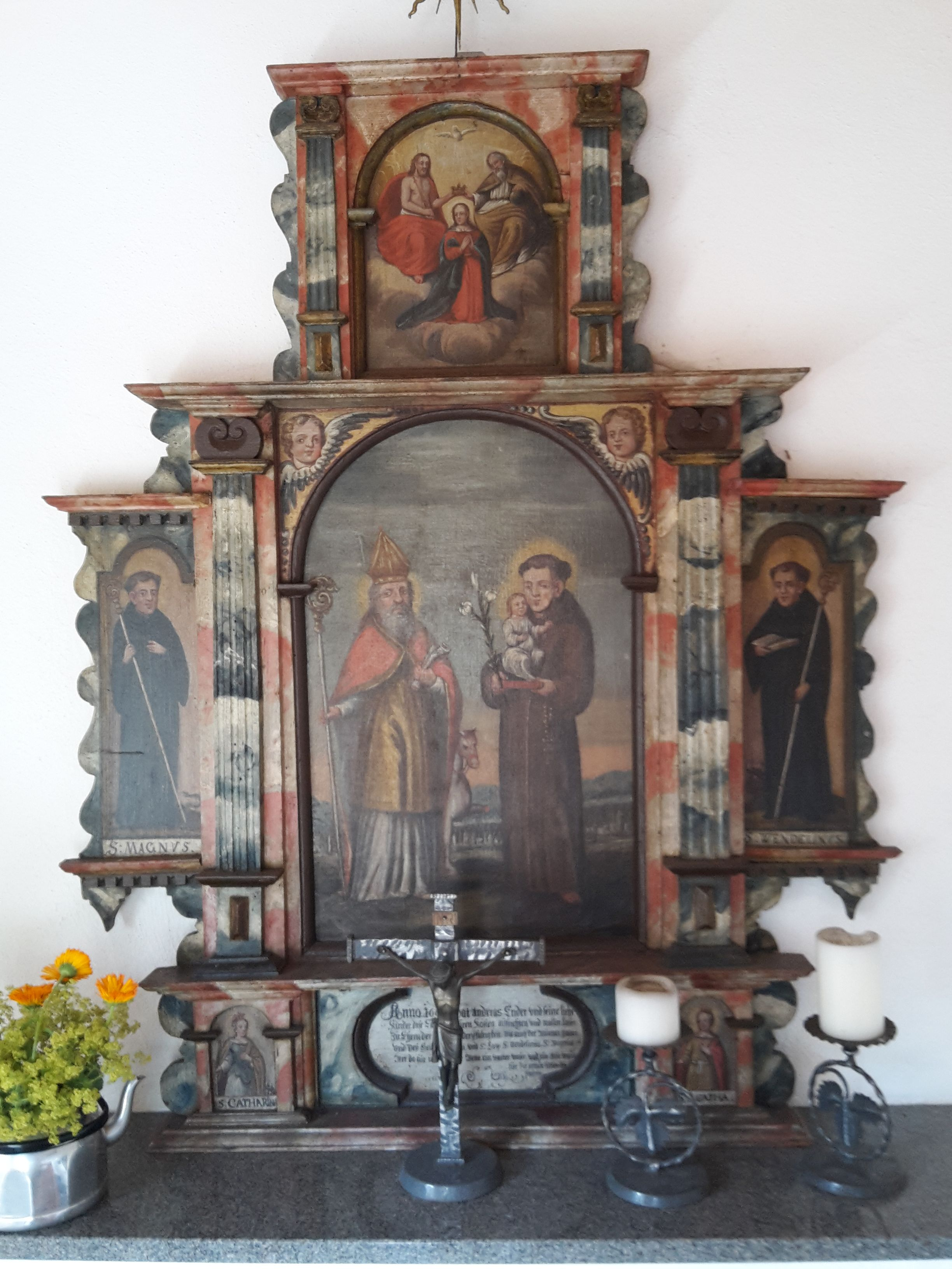 Chapel "Rheinmahd" (from Rhine) in Koblach, Vorarlberg, Austria. Altar from the year 1693.